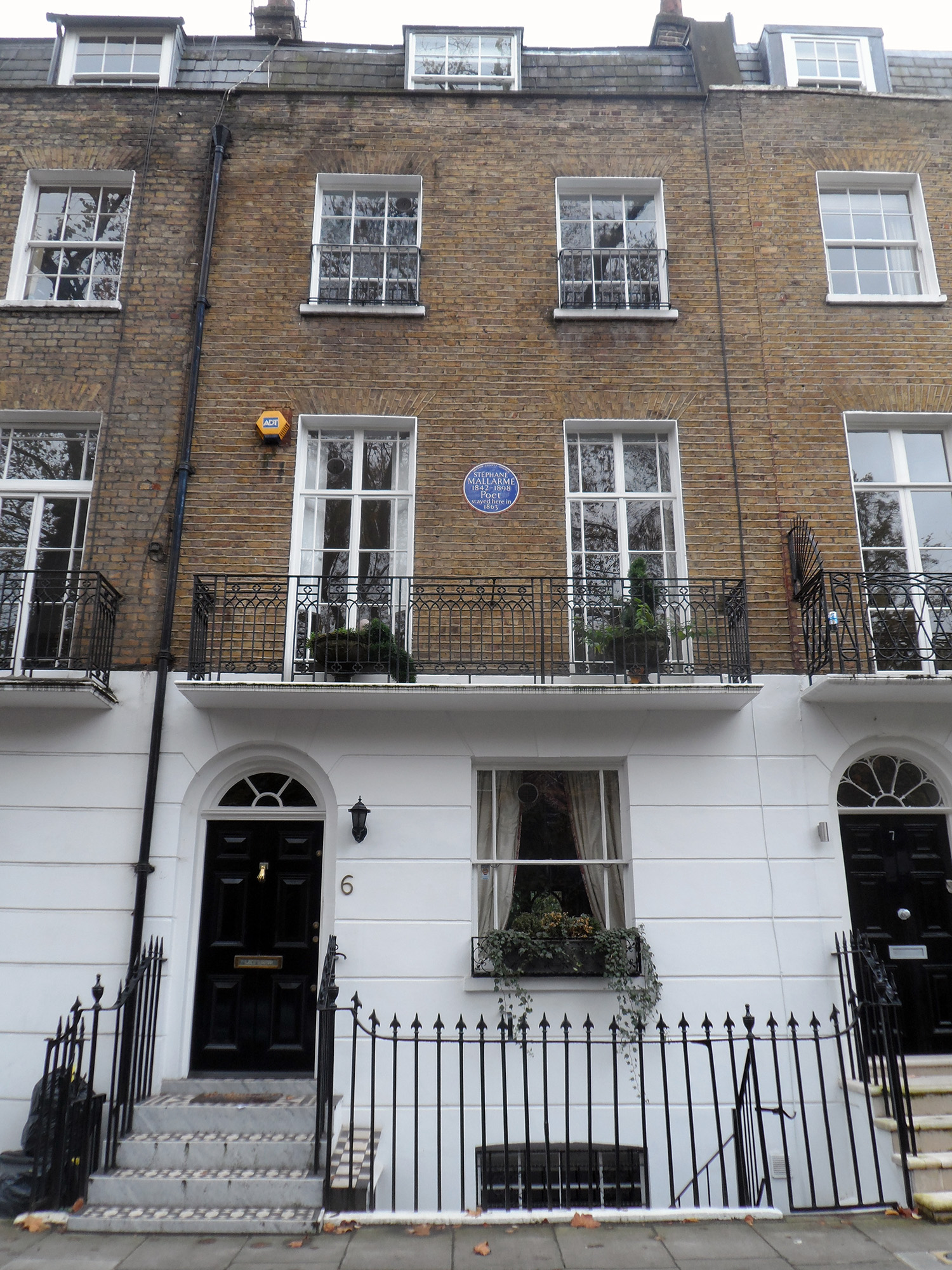 Stéphane Mallarmé 1842-1898 poet stayed here in 1863